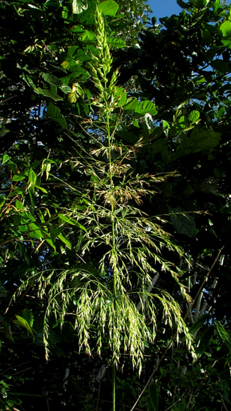 Parodiolyra micrantha (Kunth) Davidse & Zuloaga